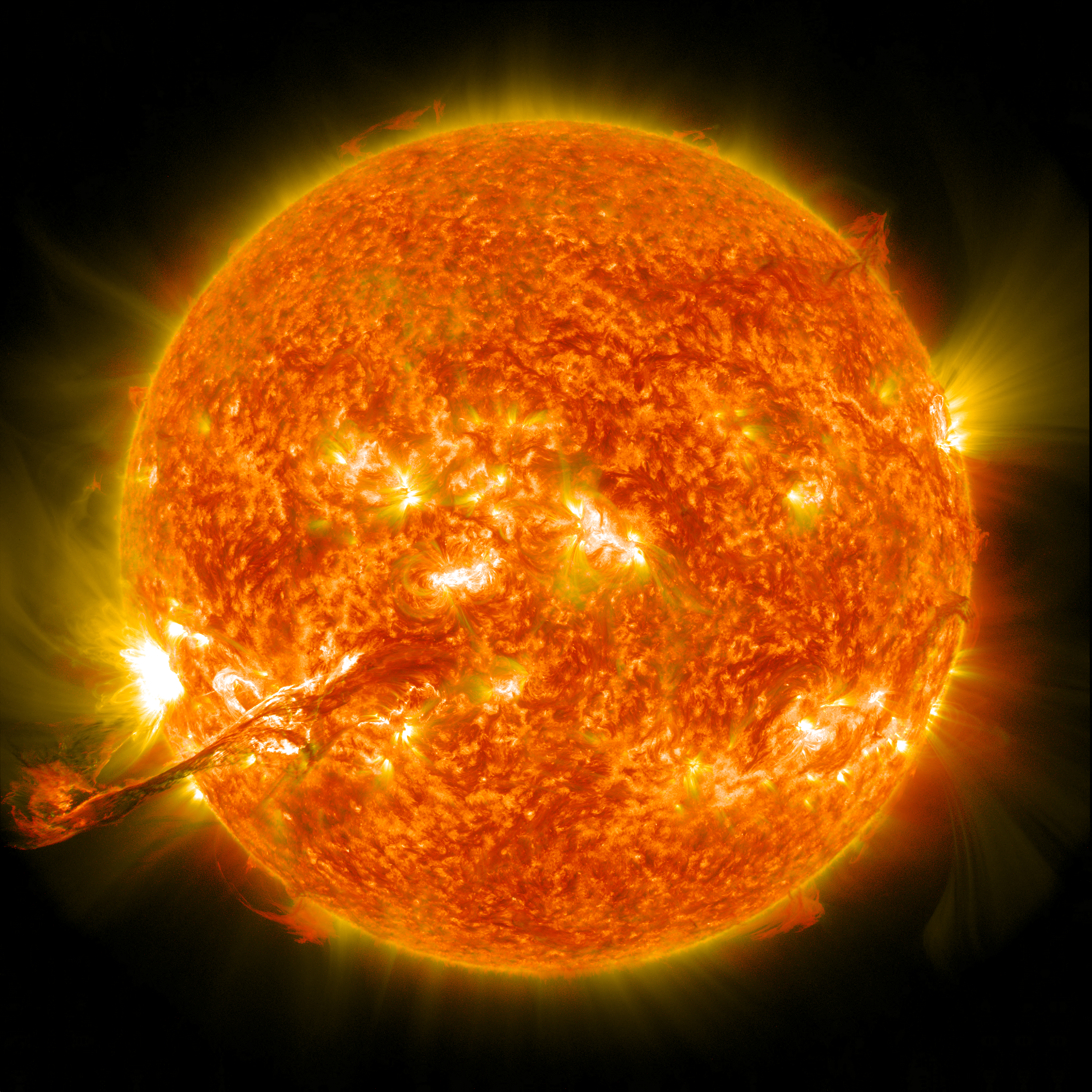 On 31 August 2012 a long filament of solar material that had been hovering in the sun's atmosphere, the corona, erupted out into space at 4:36 p.m. EDT. The coronal mass ejection, or CME, traveled at over 900 miles per second. The CME did not travel directly toward Earth, but did connect with Earth's magnetic environment, or magnetosphere, causing aurora to appear on the night of Monday, September 3. This is a a lighten blended version of the 304 and 171 angstrom wavelengths. Credit: NASA/GSFC/SDO